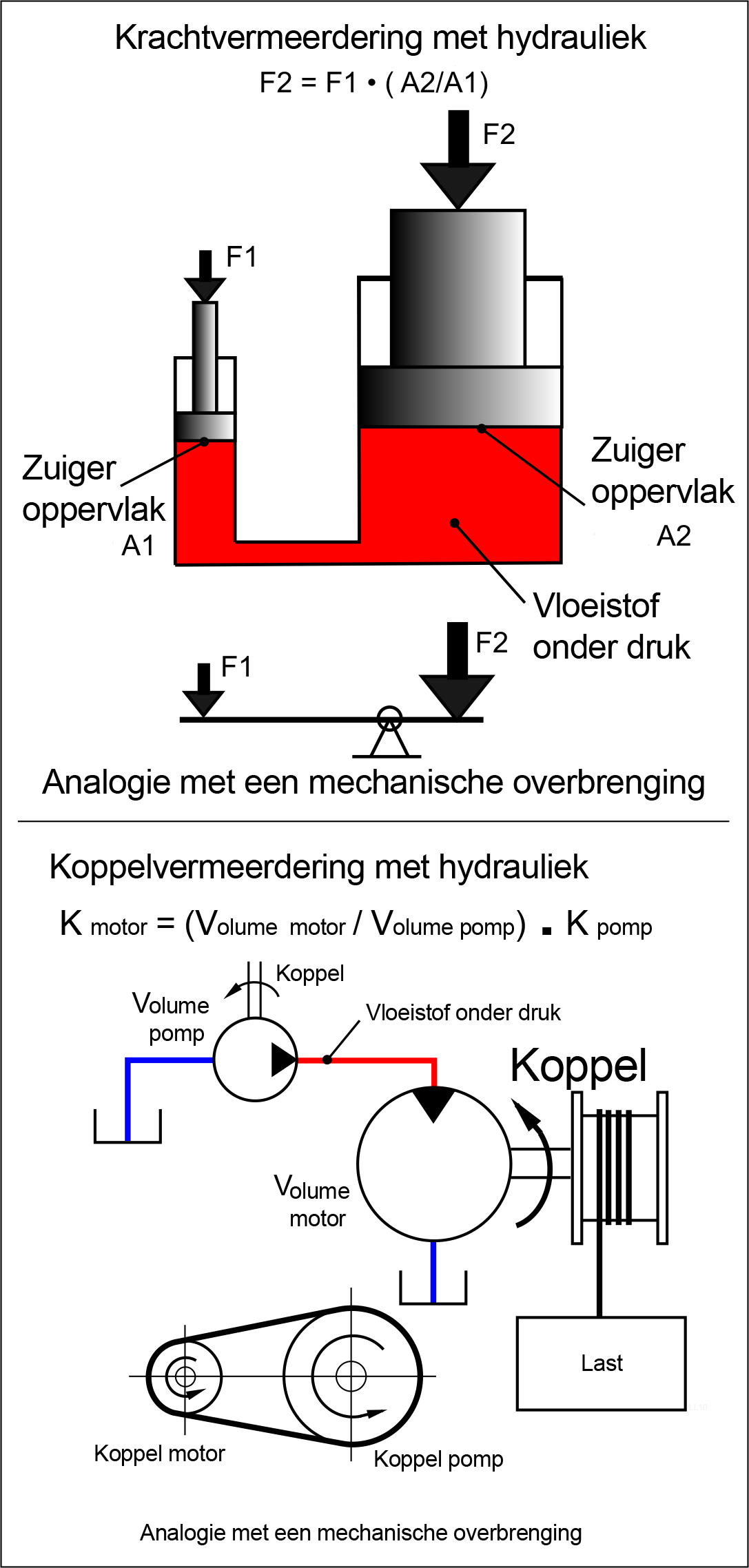 Hydraulic force and torque ratio principle compared mechanical analogies. Translation in nl language.